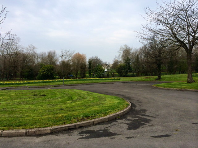 These car parks with no adjacent houses are a common sight in some of the Craigavon estates and they act as a reminder of the both the ambitiousness and failure of the New Town scheme.